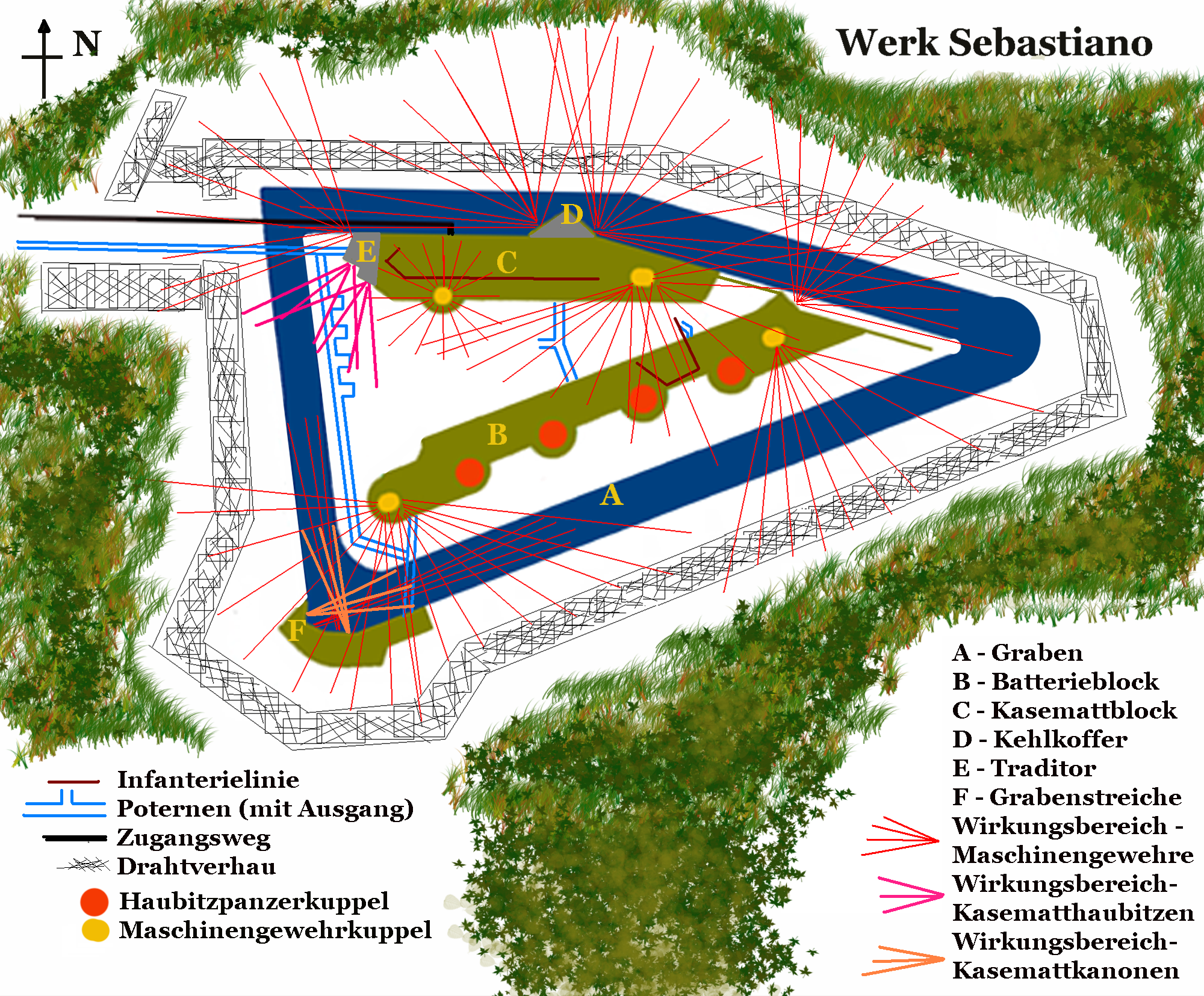 Plan of Austro-Hungarian Fort Cherle - later renamed in Fort Sebastiano